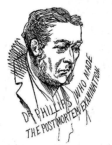 From an illustration dated 1888